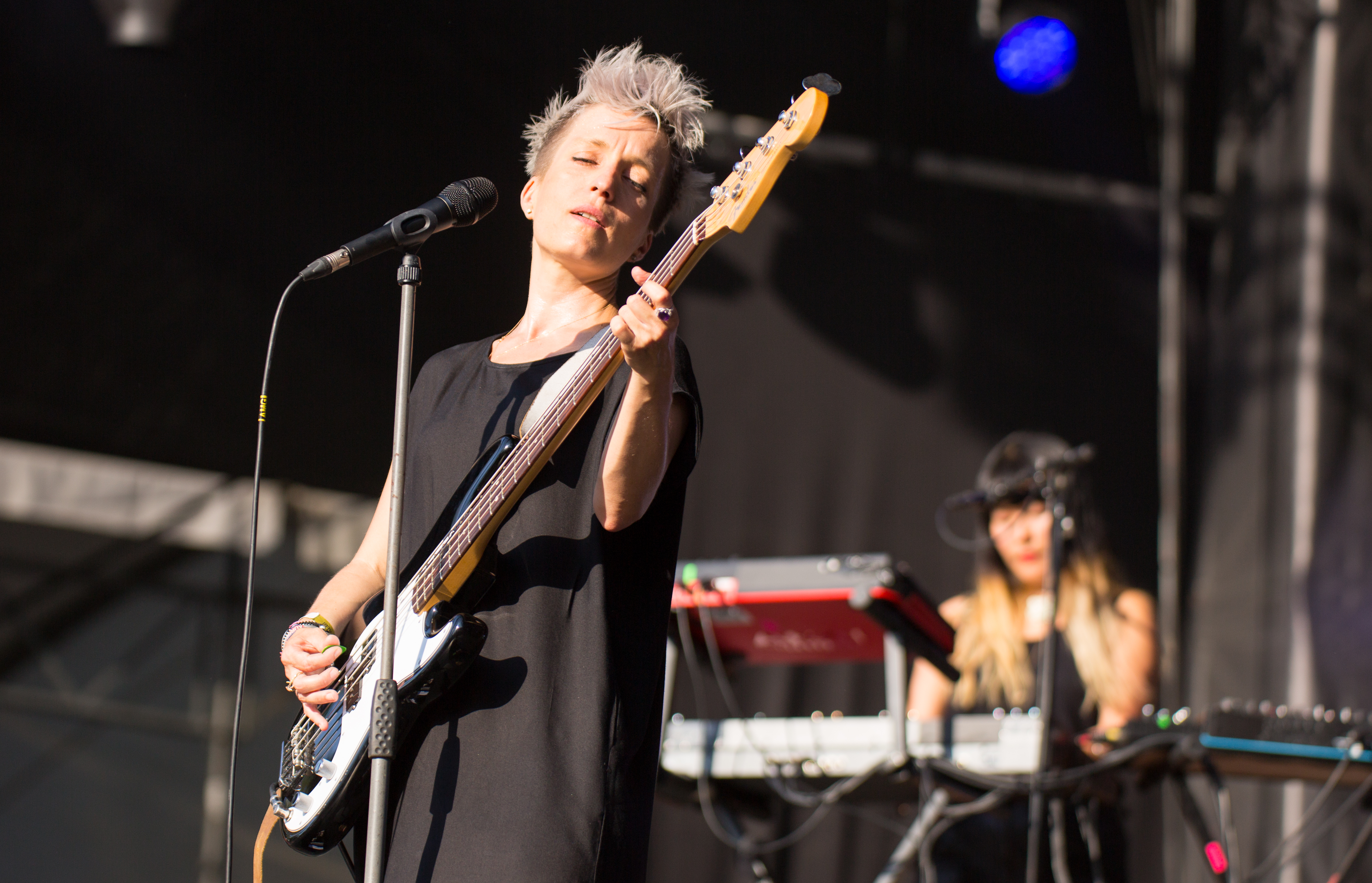 French singer and songwriter Jeanne Added at 2015 Pause Guitare.